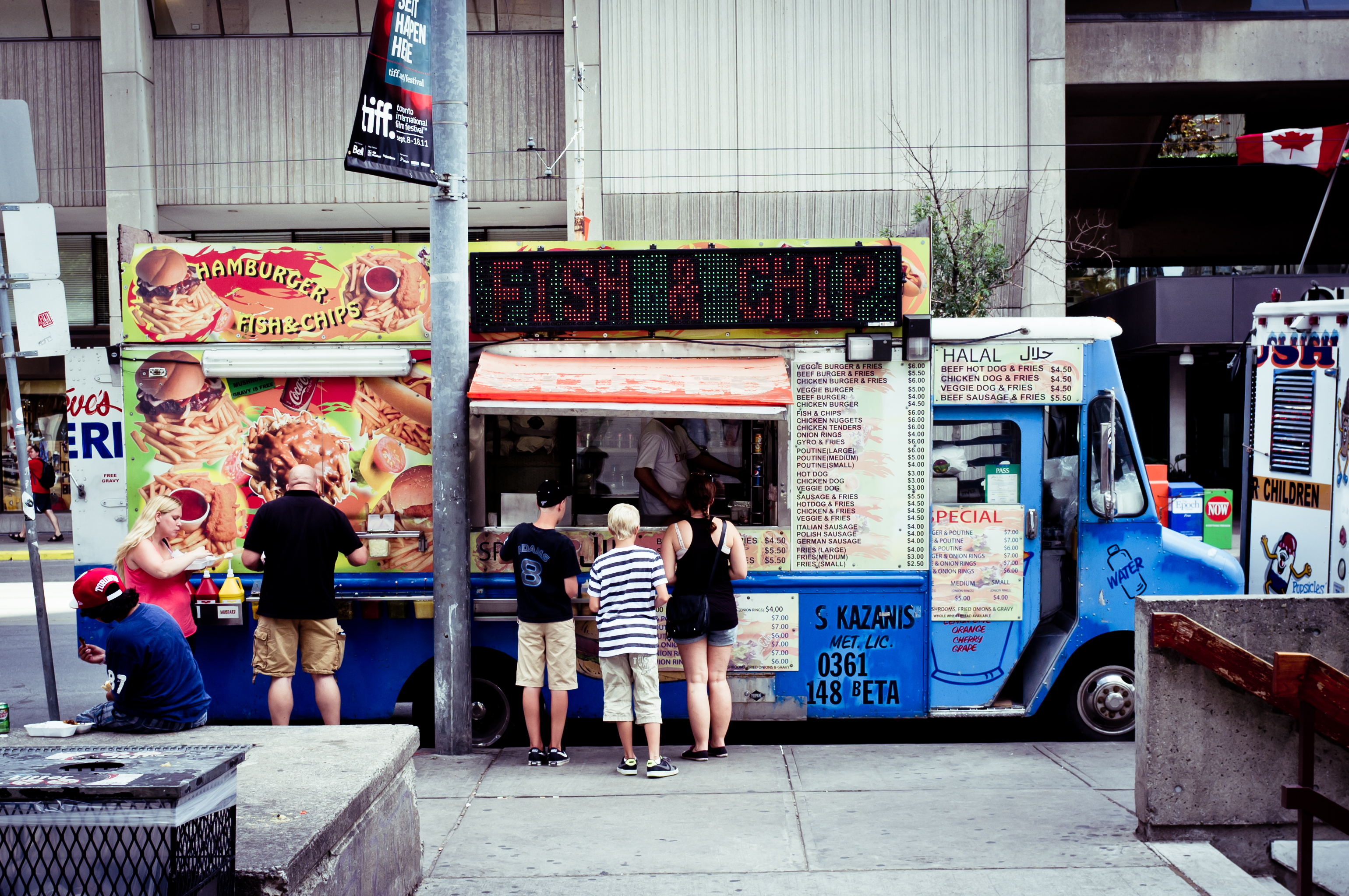 I've always wanted to try the food from the trucks along Queen Street right across city hall. There always seem to be a lot of people lining up for them, I wonder if they're any good? Toronto, Ontario